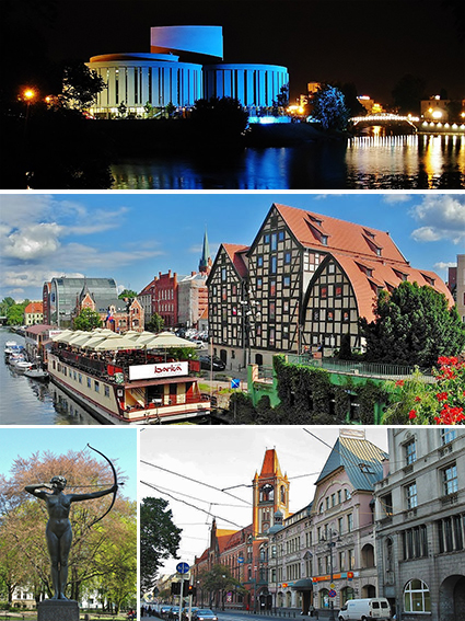 Collage of views of Bydgoszcz, Poland